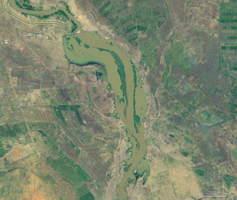 Sannar_Reservoir